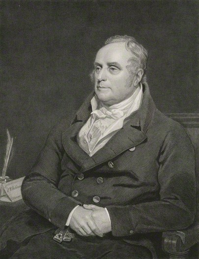 Portrait of Sir Benjamin Hobhouse, 1st Baronet (1757–1831), English politician.